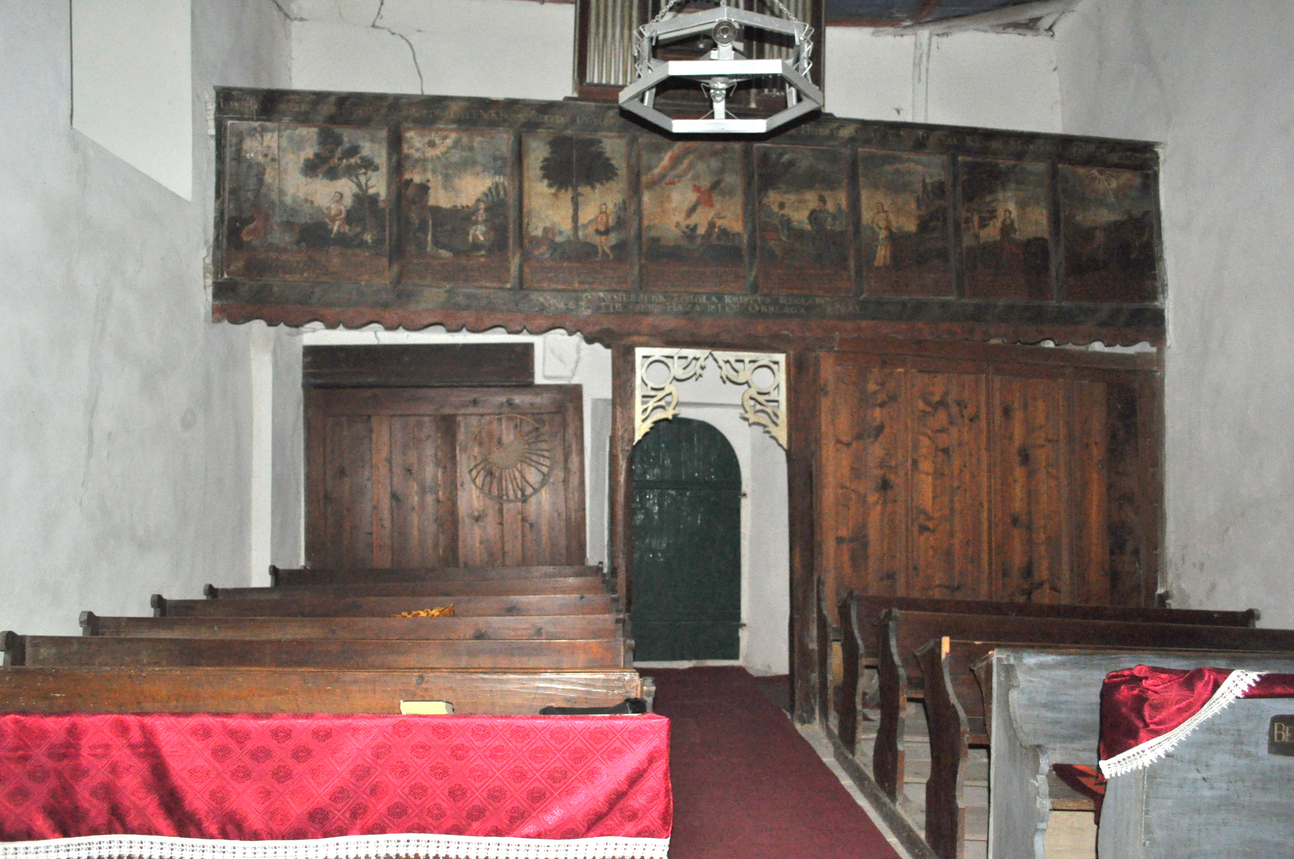 Reformed church in Cubleșu Someșan, Cluj county, Romania